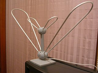 TV set-top indoor antenna (also known as "Rabbit Ears) for VHF and UHF reception. Photographed by the author on 2007-03-11 and donated to the public domain.